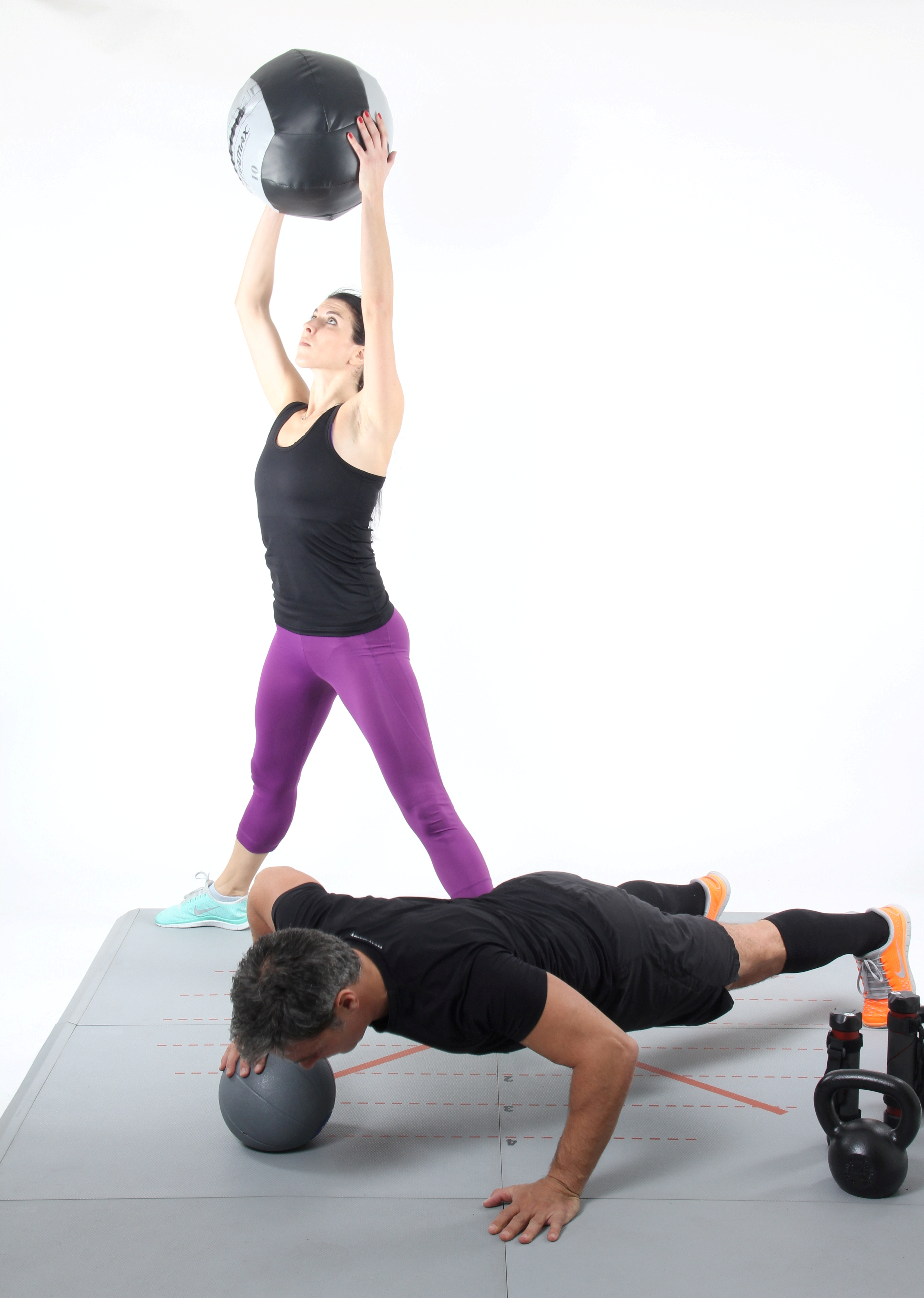 Two athletes doing functional training